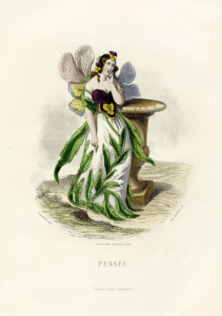 Illustration "Pensée" (pansy) from "Fleurs Animées" by the french artist Grandville (1803-1847).